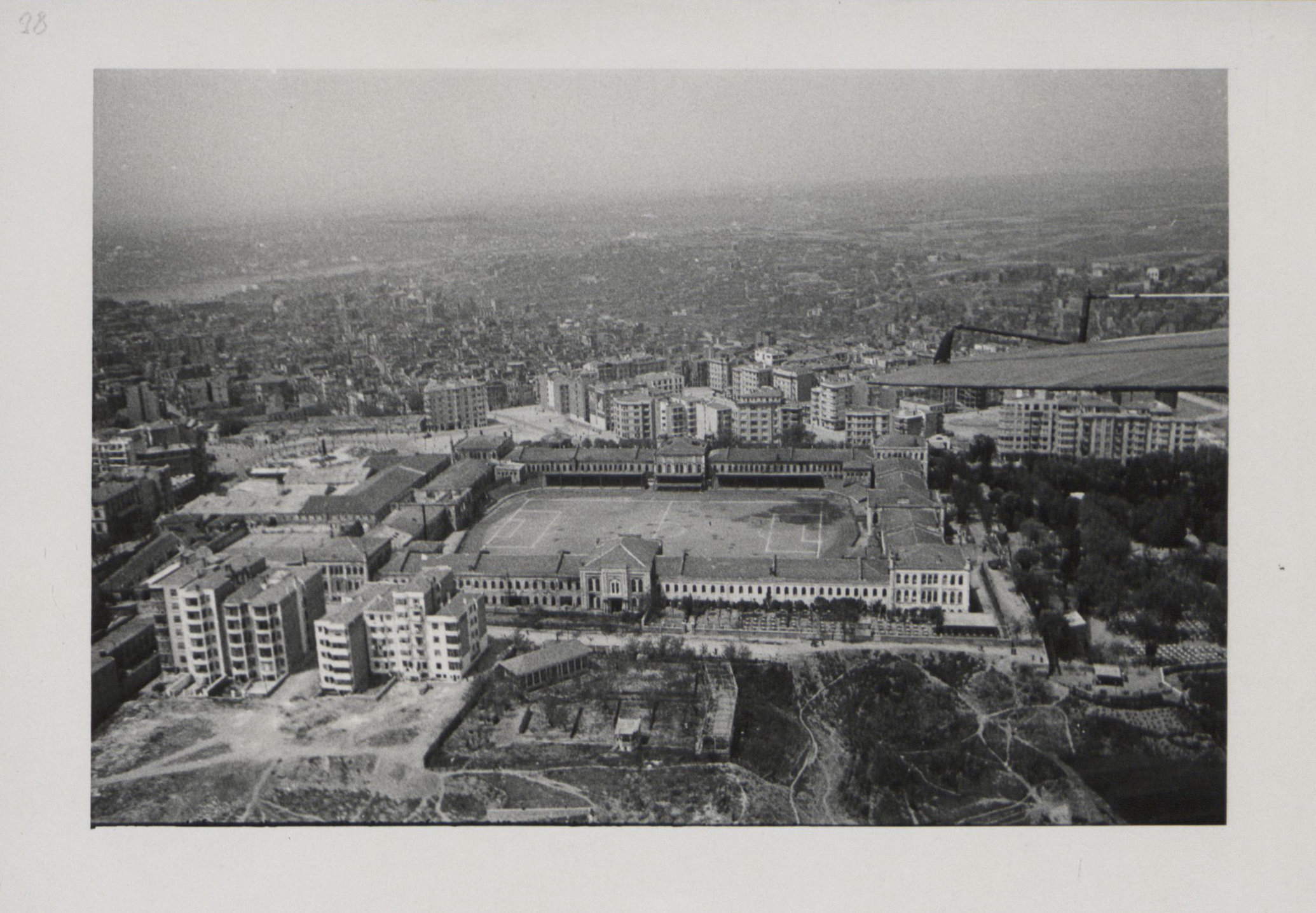 These aerial views from mid 1930s of the monumental Taksim artillery barracks and the surrounding neighborhood were taken by Ali Saim Ülgen. Ülgen was one of the most significant restoration architects of early Turkish Republic SALT Research, Ali Saim Ülgen Archive Erken Cumhuriyet döneminin en önemli restoratör mimarlarından Ali Saim Ülgen'in 1930'ların ortasında uçaktan çektiği bir fotoğraf: Geç Osmanlı dönemi İstanbul’unun en kritik anıtsal yapılarından Taksim Topçu Kışlası ve çevresi SALT Araştırma, Ali Saim Ülgen Arşivi